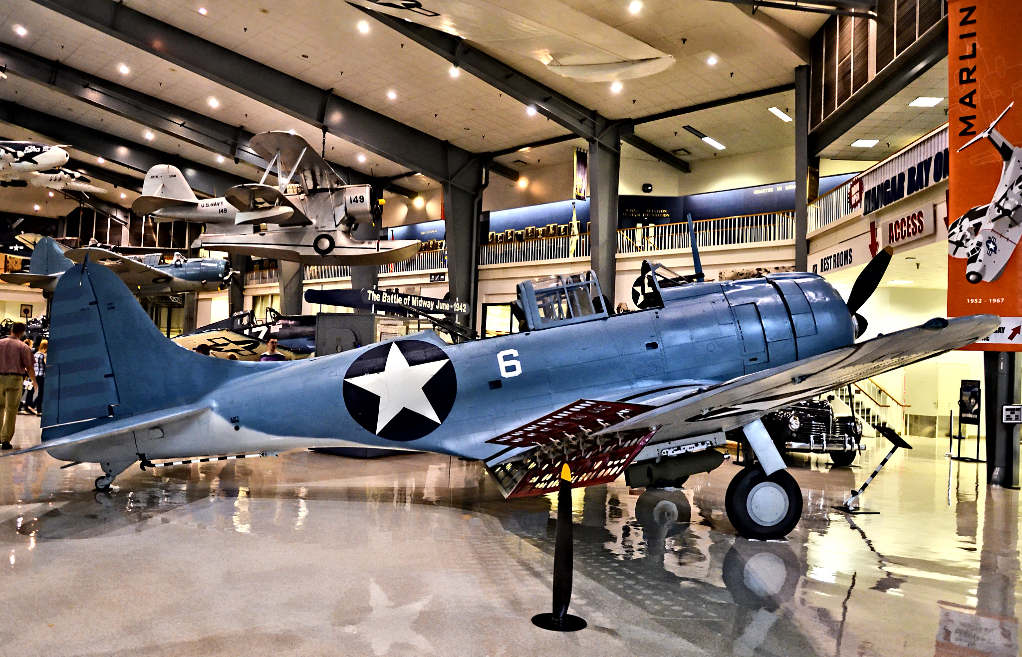 "This model is a veteran of The Battle of Midway" National Naval Aviation Museum TDelCoro May 10, 2013